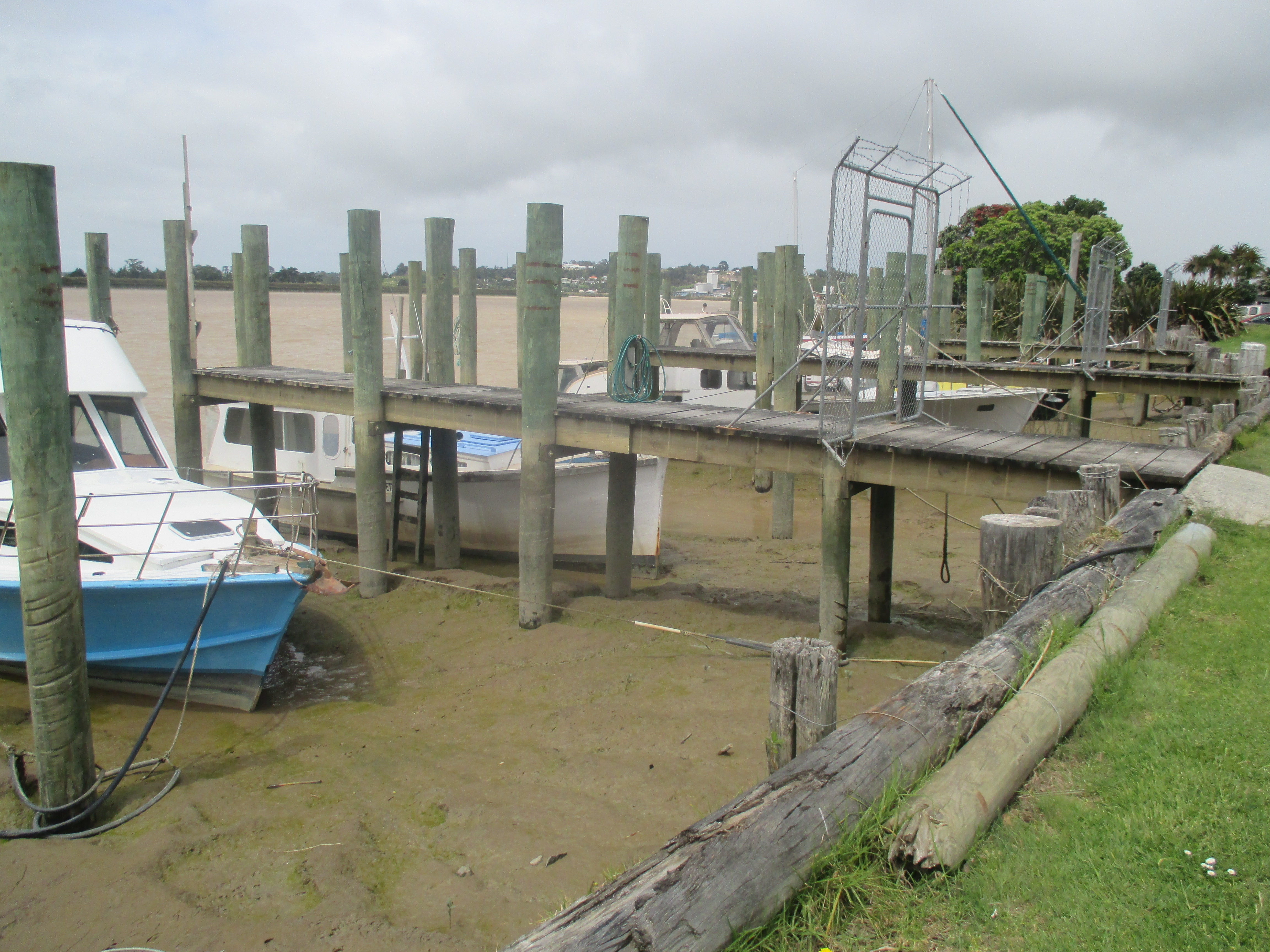 Boats moored on the banks of the Wairoa River, Dargaville, New Zealand